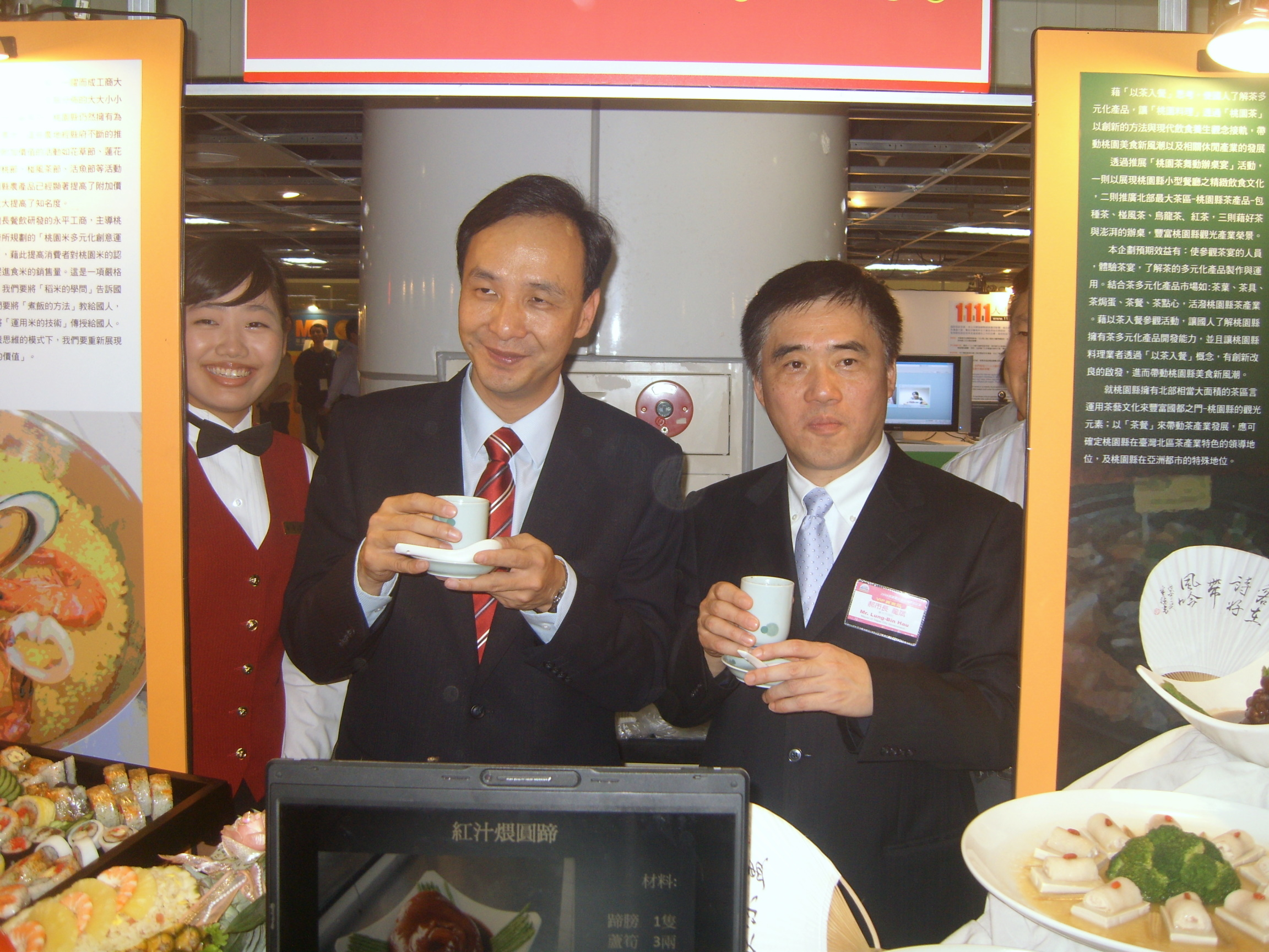 2008 Digital Cities Convention Taoyuan: Eric Chu (center, Magistrate of Taoyuan County) and Lung-pin Hau (Mayor of Taipei City).